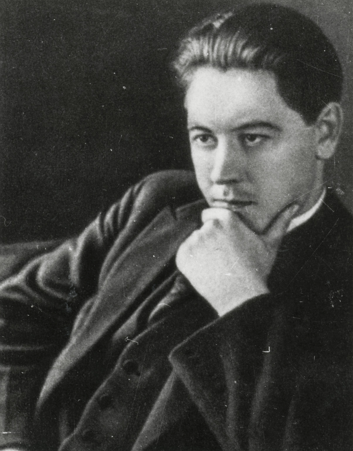 A portrait of Norwegian working class poet Rudolf Nilsen.